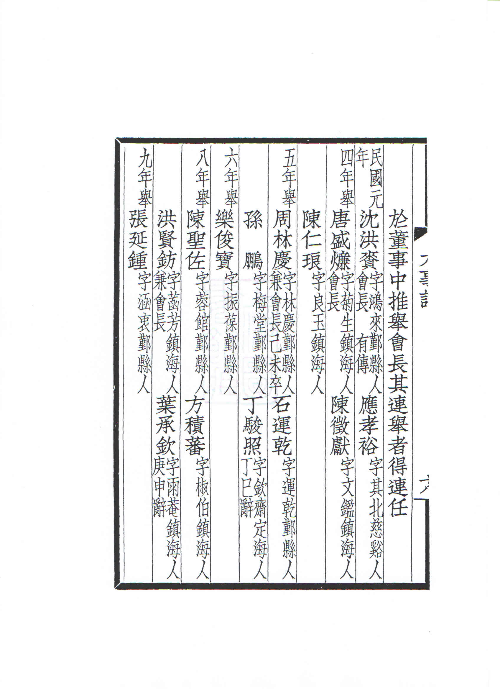 List of Si-Ming Guild Directors (page 6)